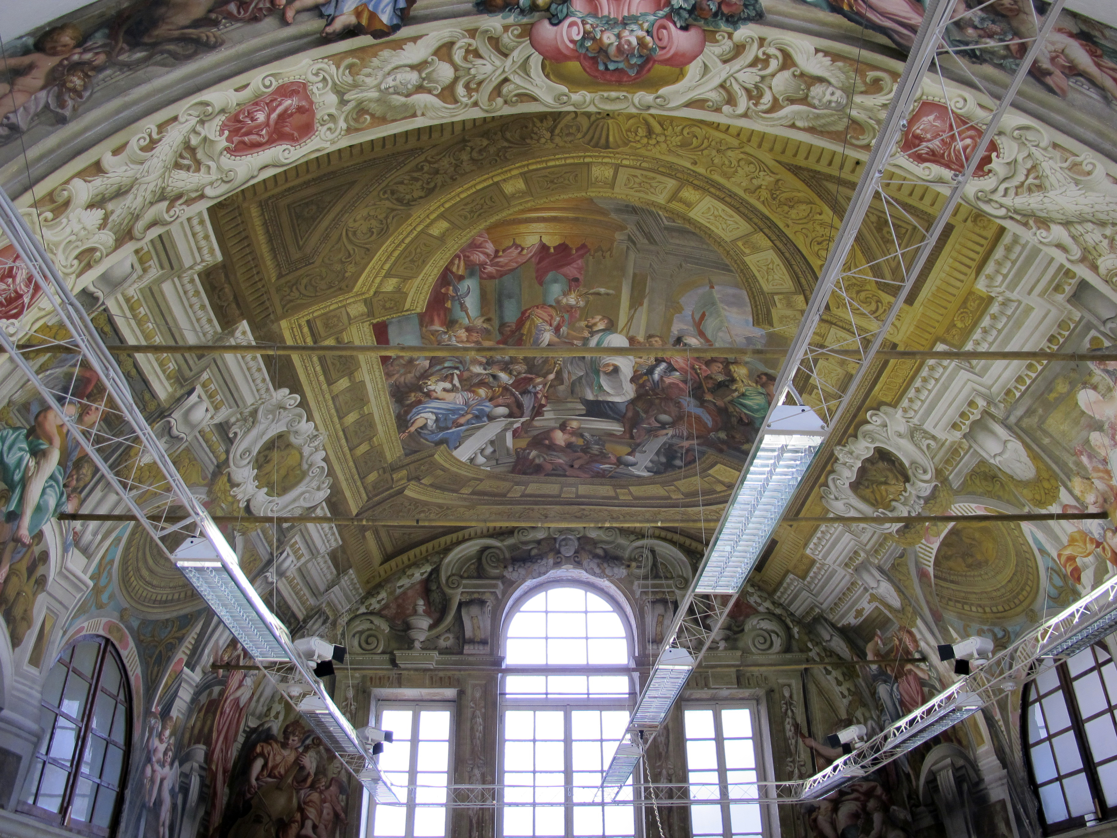 Library of the Genoa University